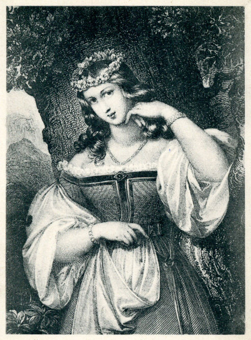 Imaginative depiction of Birutė.